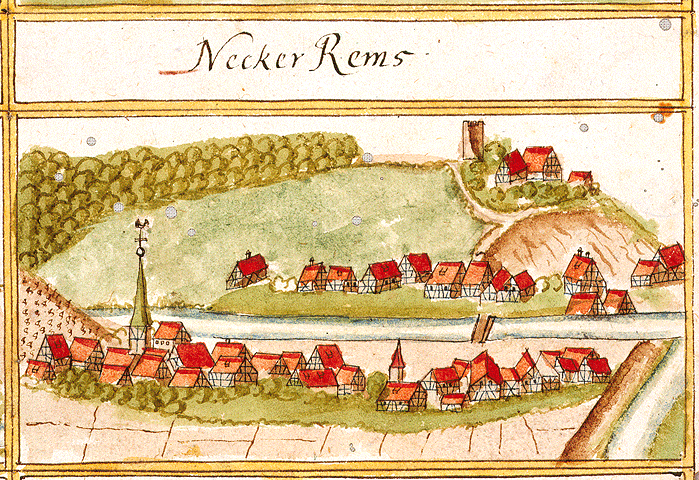 View of Neckarrems, Remseck am Neckar, from the forest register books created by Andreas Kieser